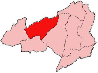 Map of Bong County, Liberia showing Sanayea District; created with the GIMP. Made by User:Acntx.